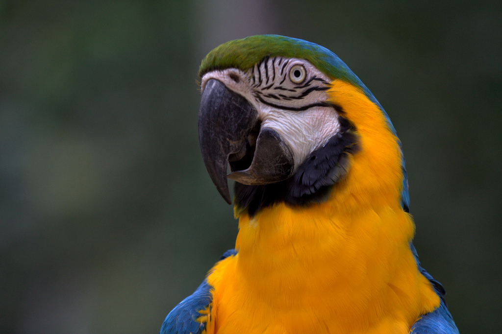 Blue-and-gold Macaw at Mountain Bird Park & Nature Reserve at Macaw Mountain Bird Park and Nature Reserve, Copan, Honduras.